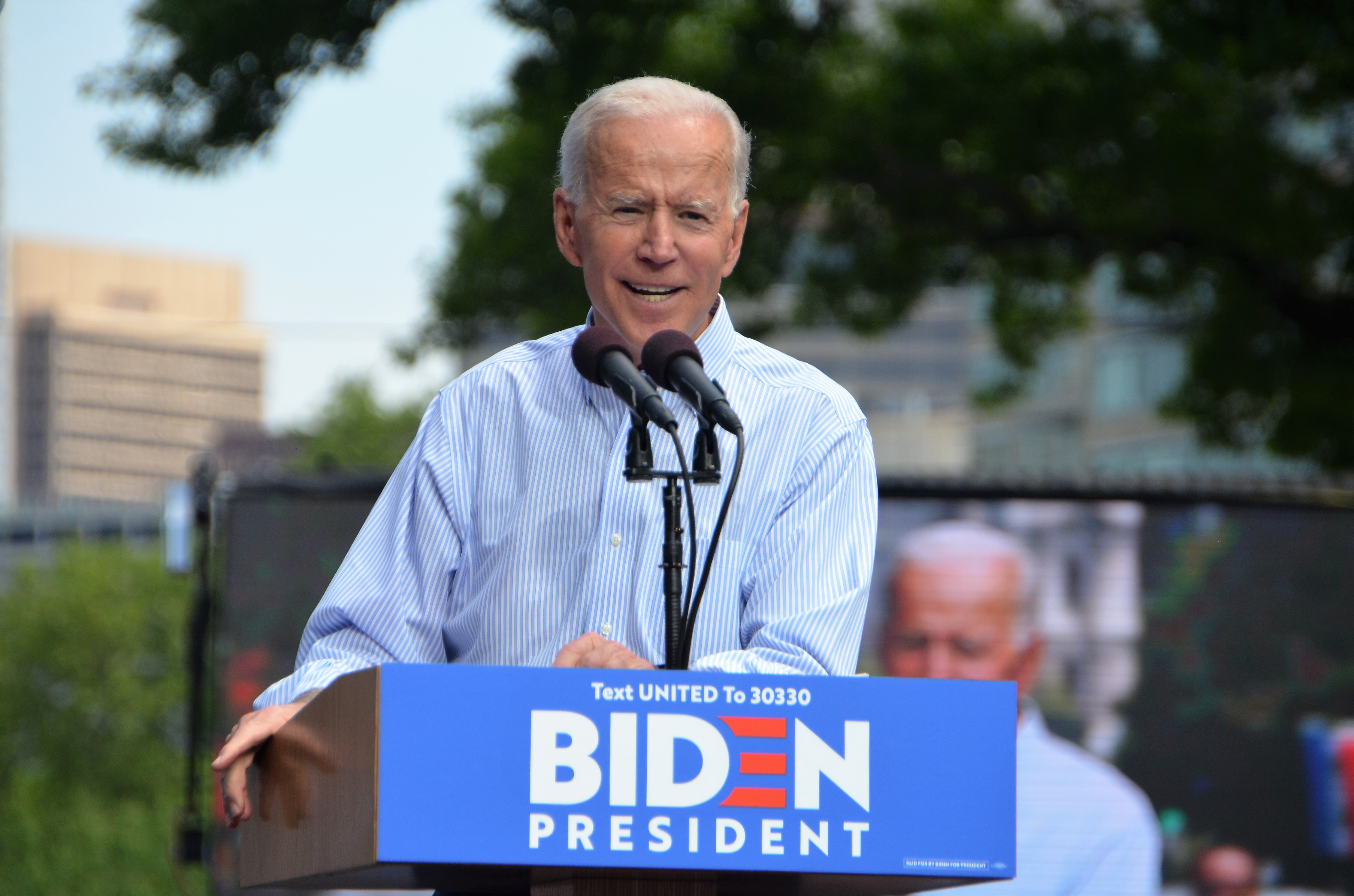 Former Vice President Joe Biden's kickoff rally for his 2020 Presidential campaign